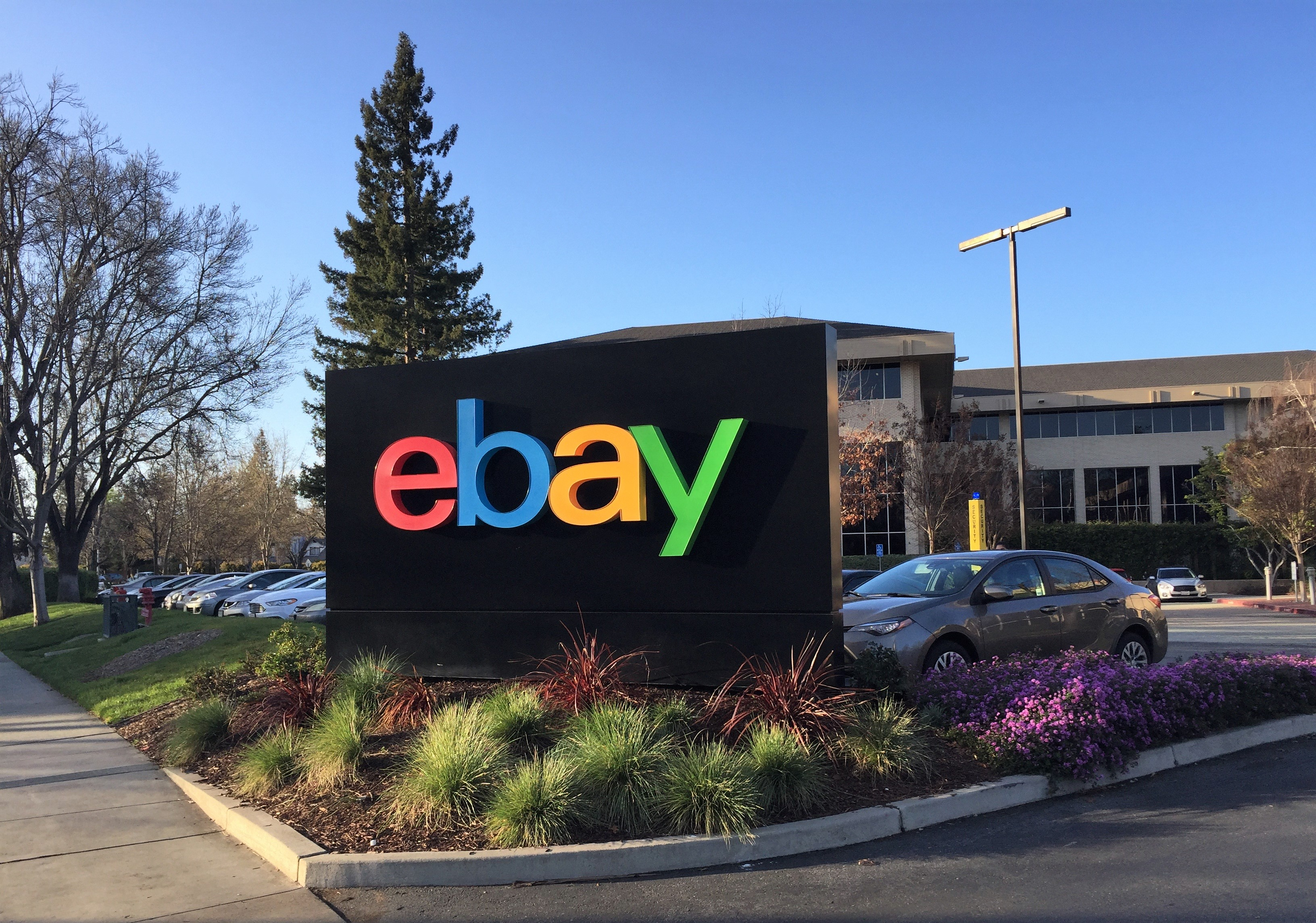 The headquarters of eBay in San Jose, California. Photographed on March 22, 2018 by user:And3275.